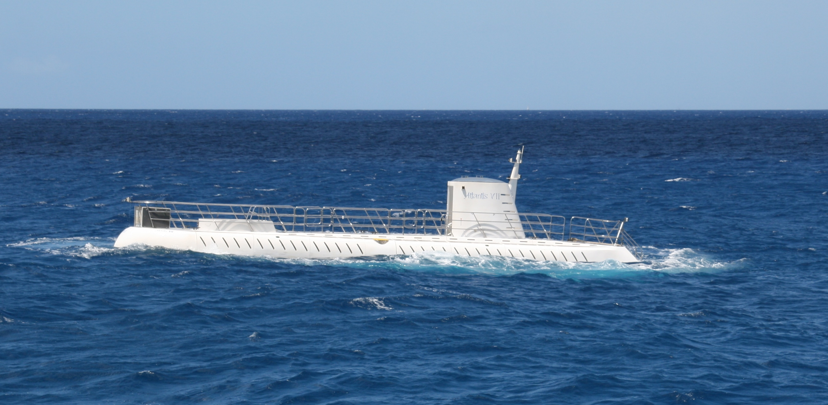 AtlantisIV, a tourist submarine